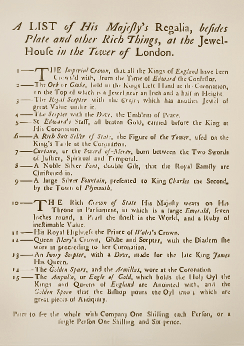 'A List of His Majesty's Regalia, besides Plate and other Rich Things, at the Jewel House in the Tower of London'